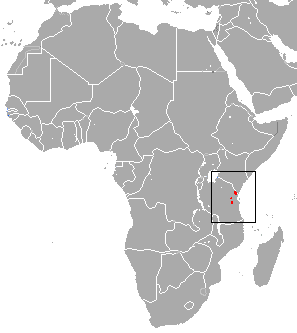 Howell's Forest Shrew (Sylvisorex howelli) range